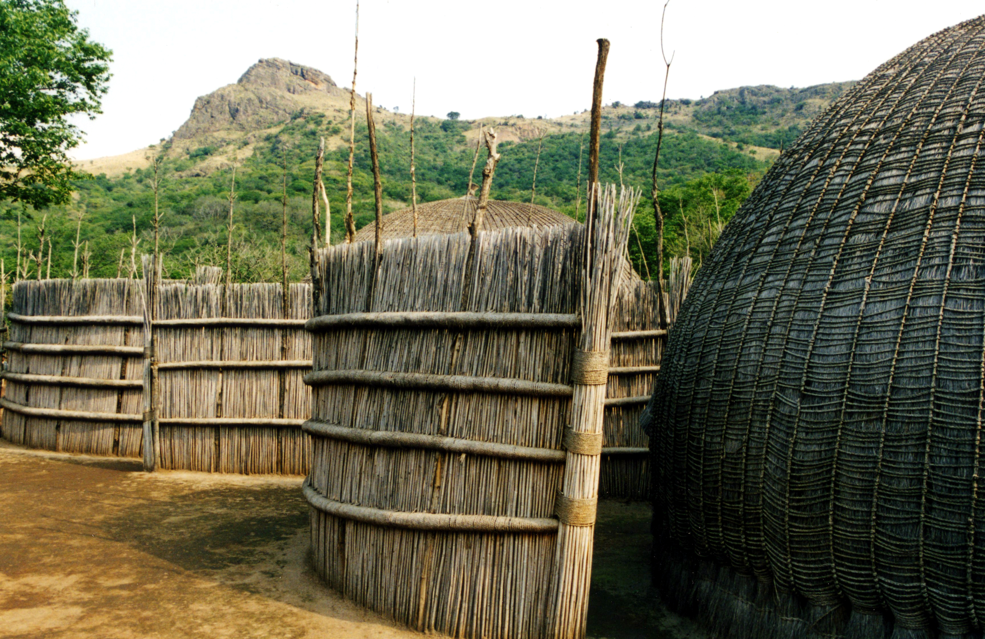 Traditional homes in Swaziland and still widely used outside of the towns.